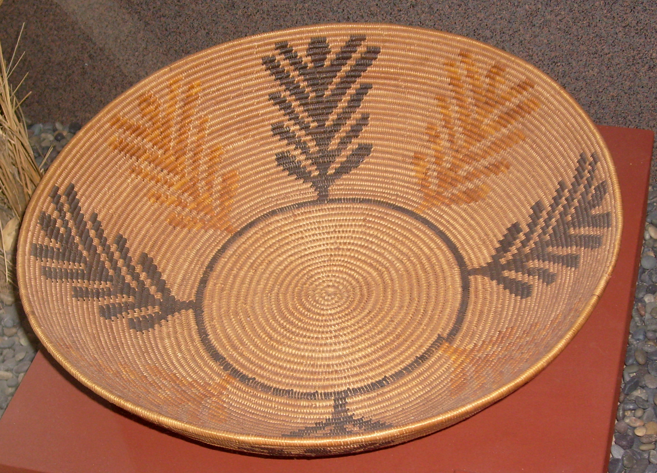 Kumeyaai basket. Coiled bowl made by Celestine Lachapa of Inajo, late nineteenth century. Displayed at Museum of Man, San Diego, California.